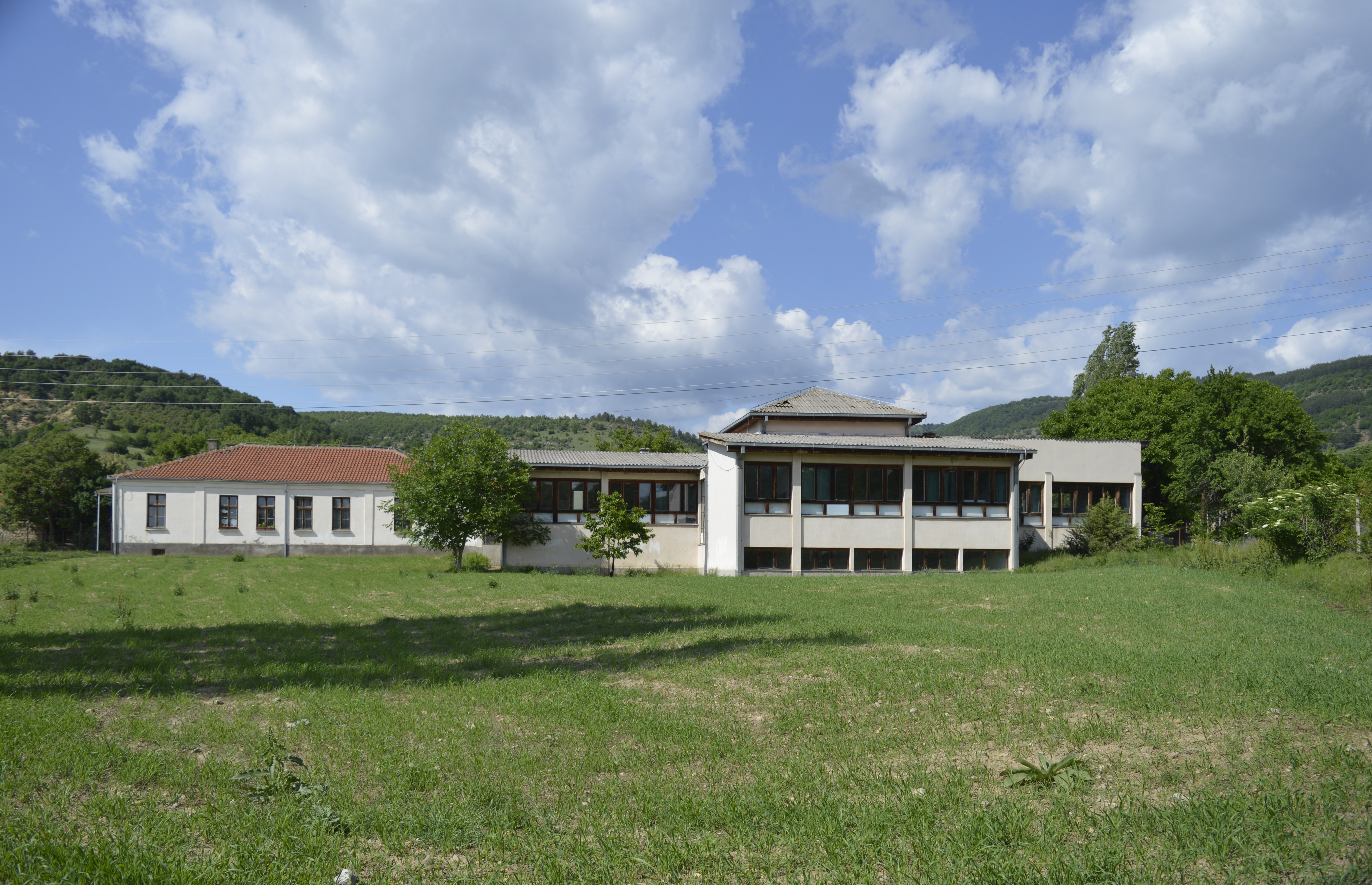 View of the primary school in the village Grad